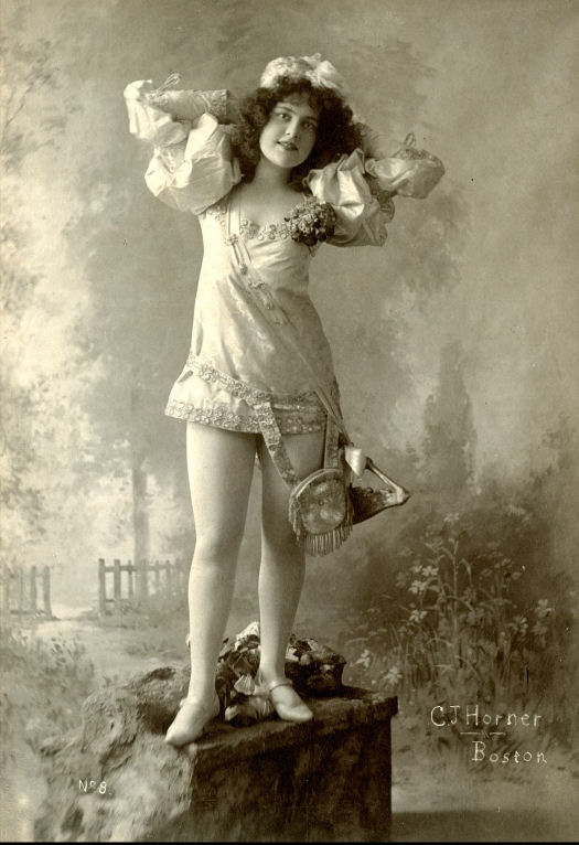 The British actress Madge Lessing as Jack Hubbard in Jack and the Beanstalk at the Boston Museum theatre in 1898